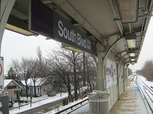 South Blvd CTA Station, Evanston, Illinois, United States